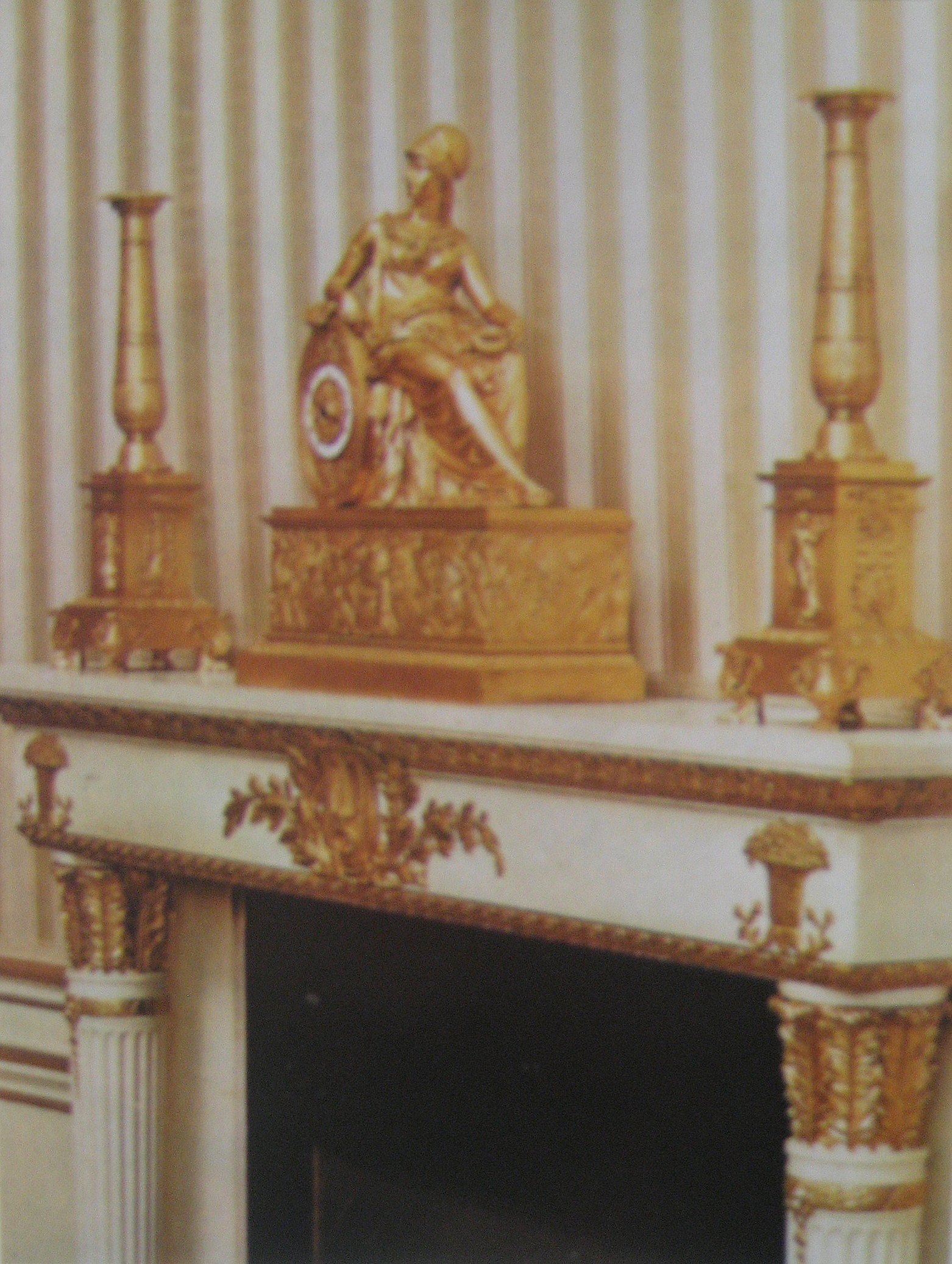 A set of ormolu clock with a figure of Minerva and candlesticks in the Empire-style purchased in Paris in 1817 by the U.S. president James Monroe in order to adorn the White House that had been burned down by the English in 1814. Bronzier Pierre-Philippe Thomire, clock movement by Louis Moinet. When this photo was taken in the early 1960s it was located in the Blue Room of the White House, now it is the Entrance Hall of the presidential residence